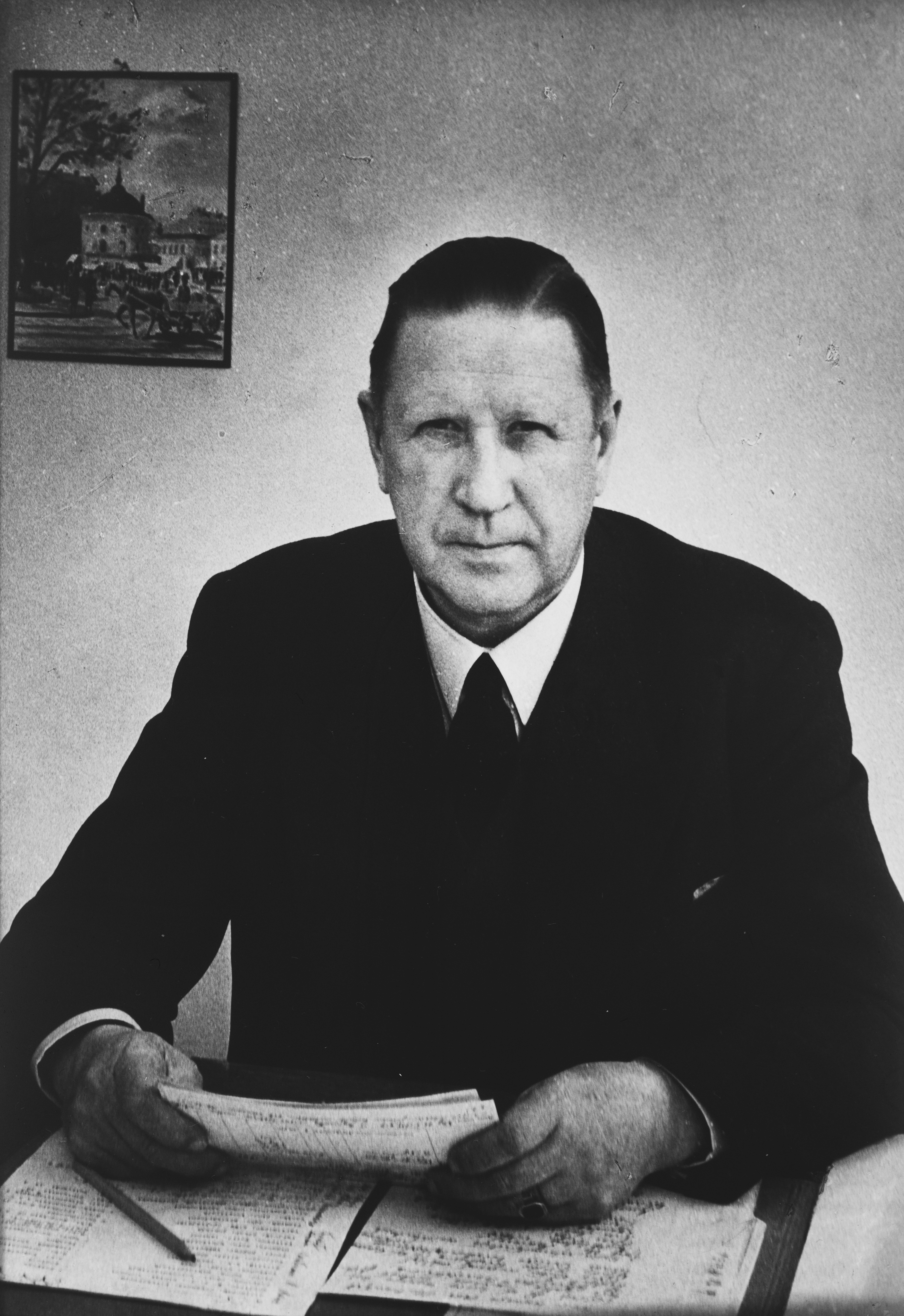 Photograph of the Finnish politician Arno Tuurna (1894–1976).